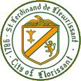 Seal of Florissant, Missouri. from 1971.